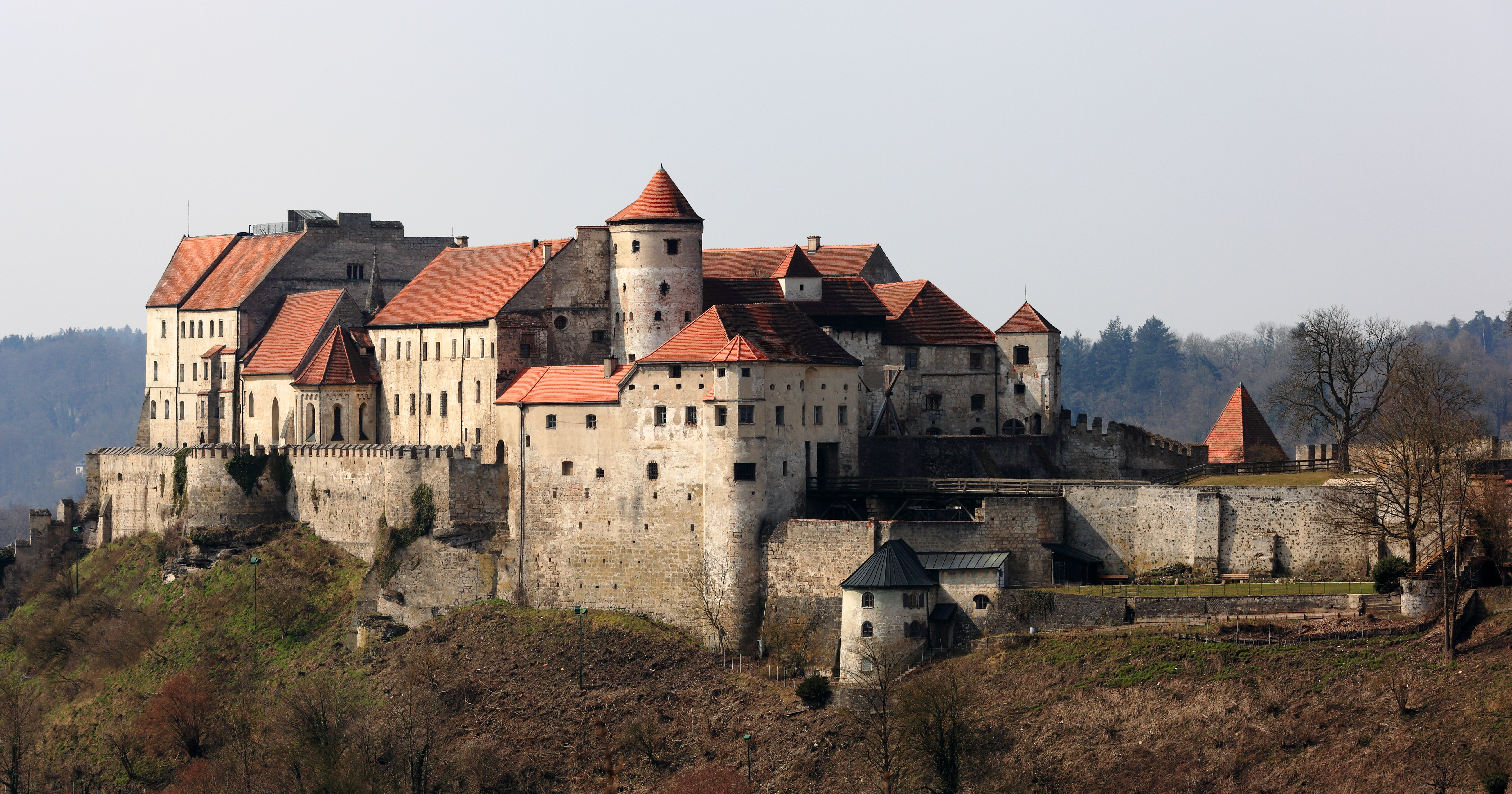 Castle of Burghausen